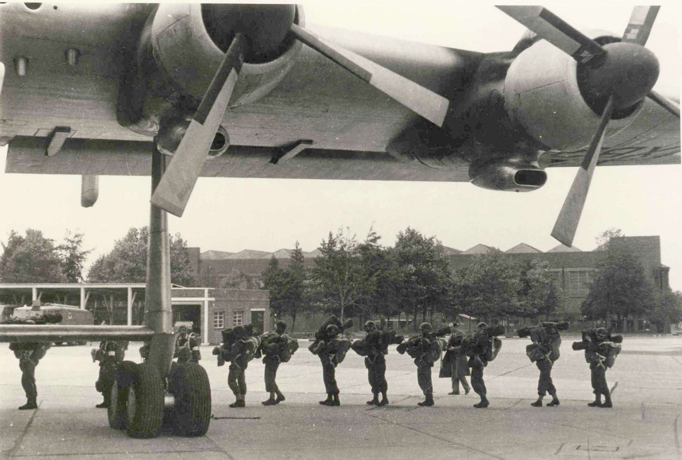 Parachute training: 1961 at RAF Abingdon: emplaning on a Blackburn Beverley prior to jumping License on Flickr: CC-BY-SA-2.0